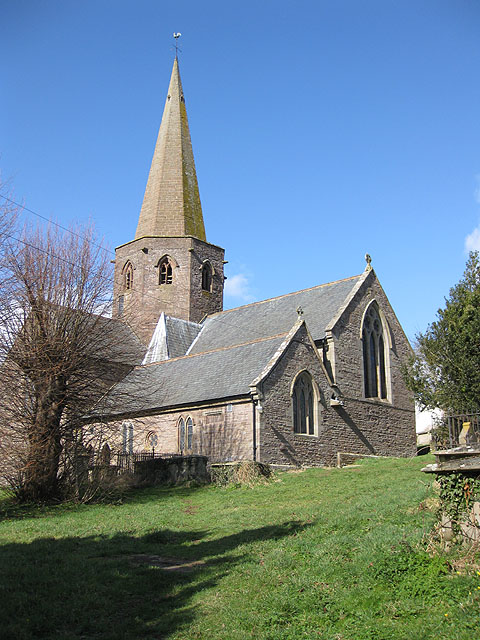 Church of St. Nicholas, Grosmont Partly built during the 13th century by Eleanor of Provence, Queen of Henry III. Now a cruciform shape with chancel, nave, aisles, transepts with aisle, side chapel, north porch and a central octagonal tower with spire. The church was restored during the period 1870-75 and in 1886 the nave was thoroughly restored with Lord Llangattock bearing the cost.